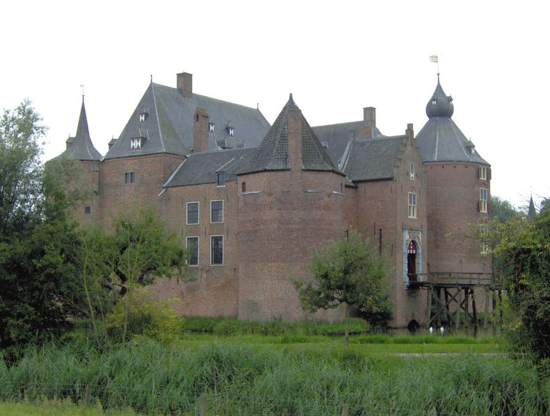 Castle Ammersoyen